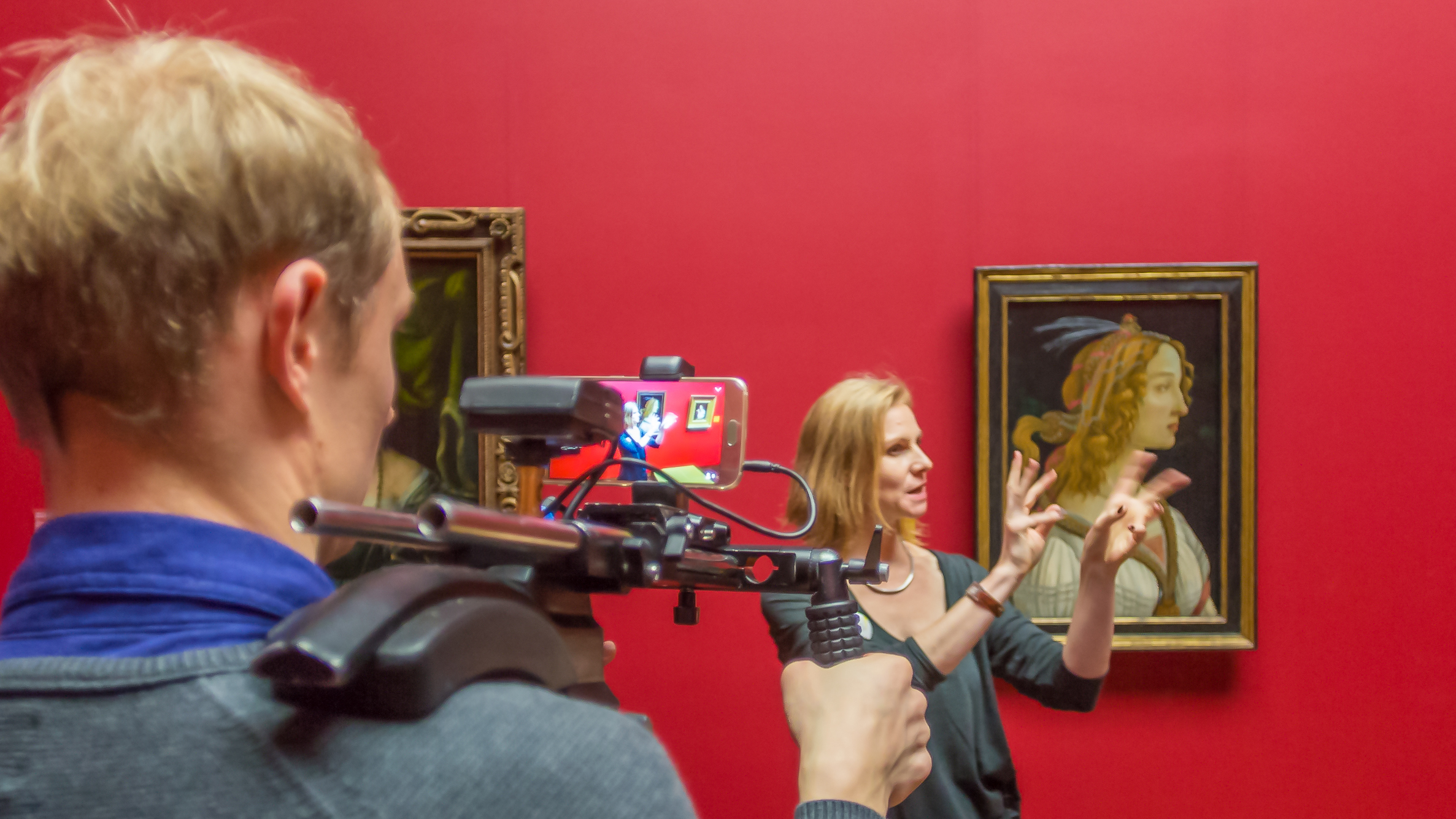 Streaming a guided tour in Städel museum, Frankfurt with the Periscope app